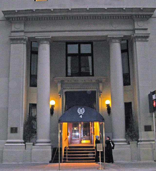 Harmonie Club